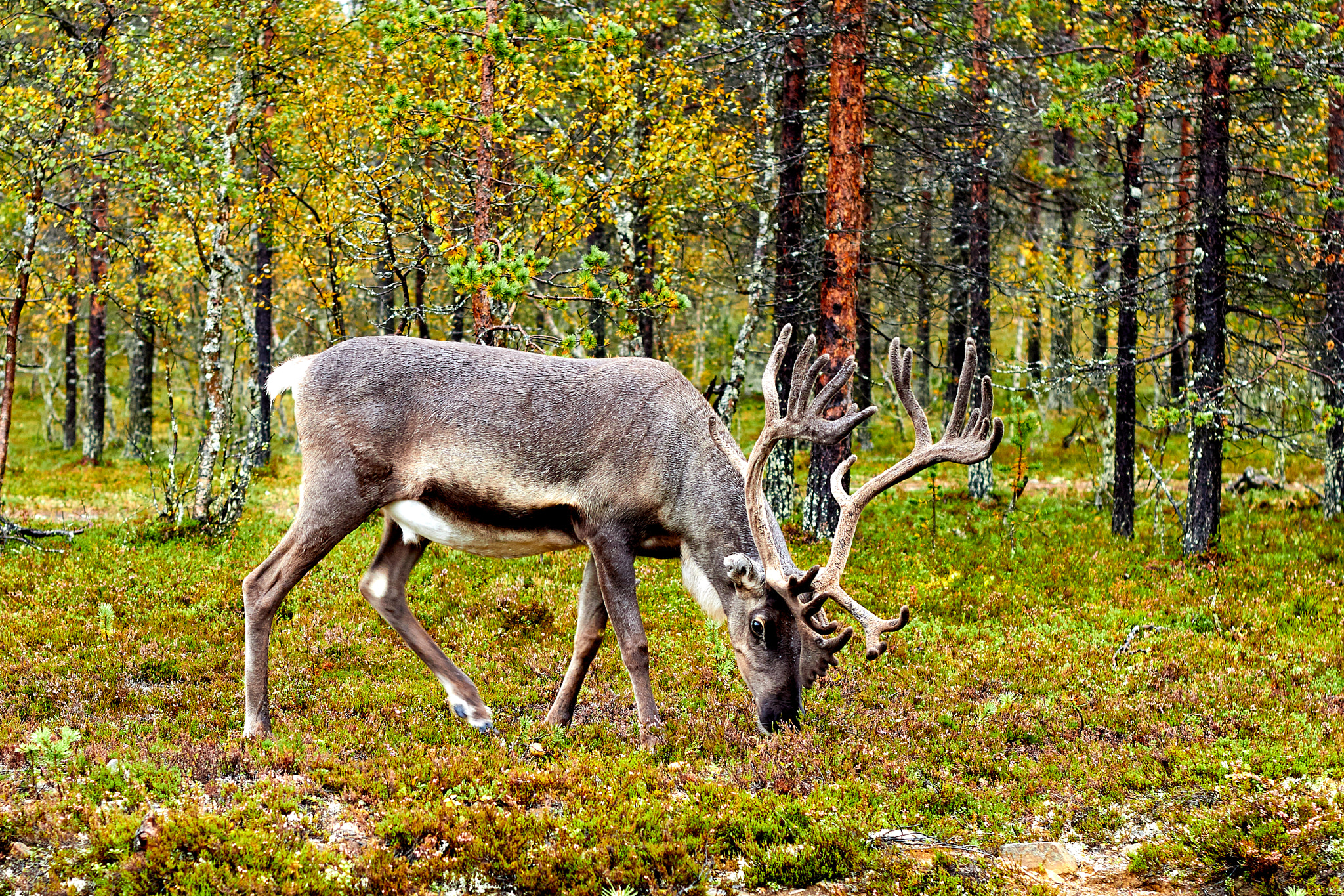 500px provided description: Reindeer in the wild of northern finland. Visit my website for more creative work outside of photography. [#trees ,#forest ,#color ,#summer ,#natural ,#animal ,#wildlife ,#deer ,#finland ,#wild ,#reindeer ,#antler]